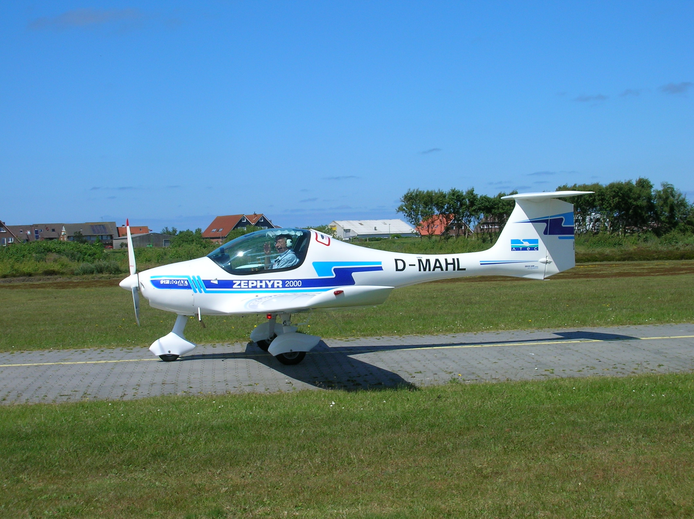 Zephyr 2000 D-MAHL at Langeoog Airport, Germany